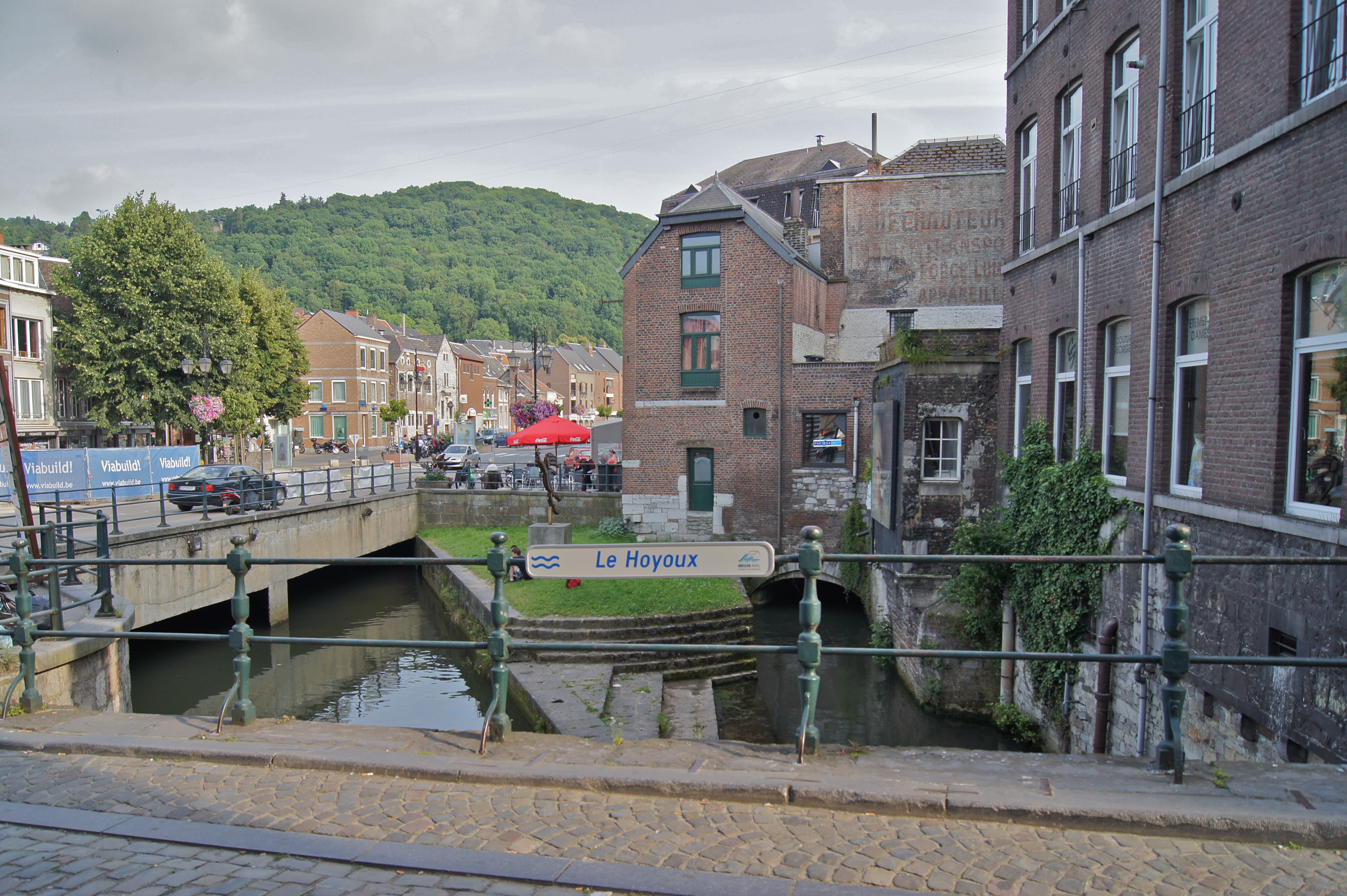 Huy (rue des Rôtisseurs), Belgium: The river Hoyoux disappearing under an ugly concrete parking